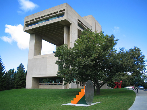 The view of the Johnson Art Museum and surrounding sculpture taken from a point on Libe Slope southeast of the building.